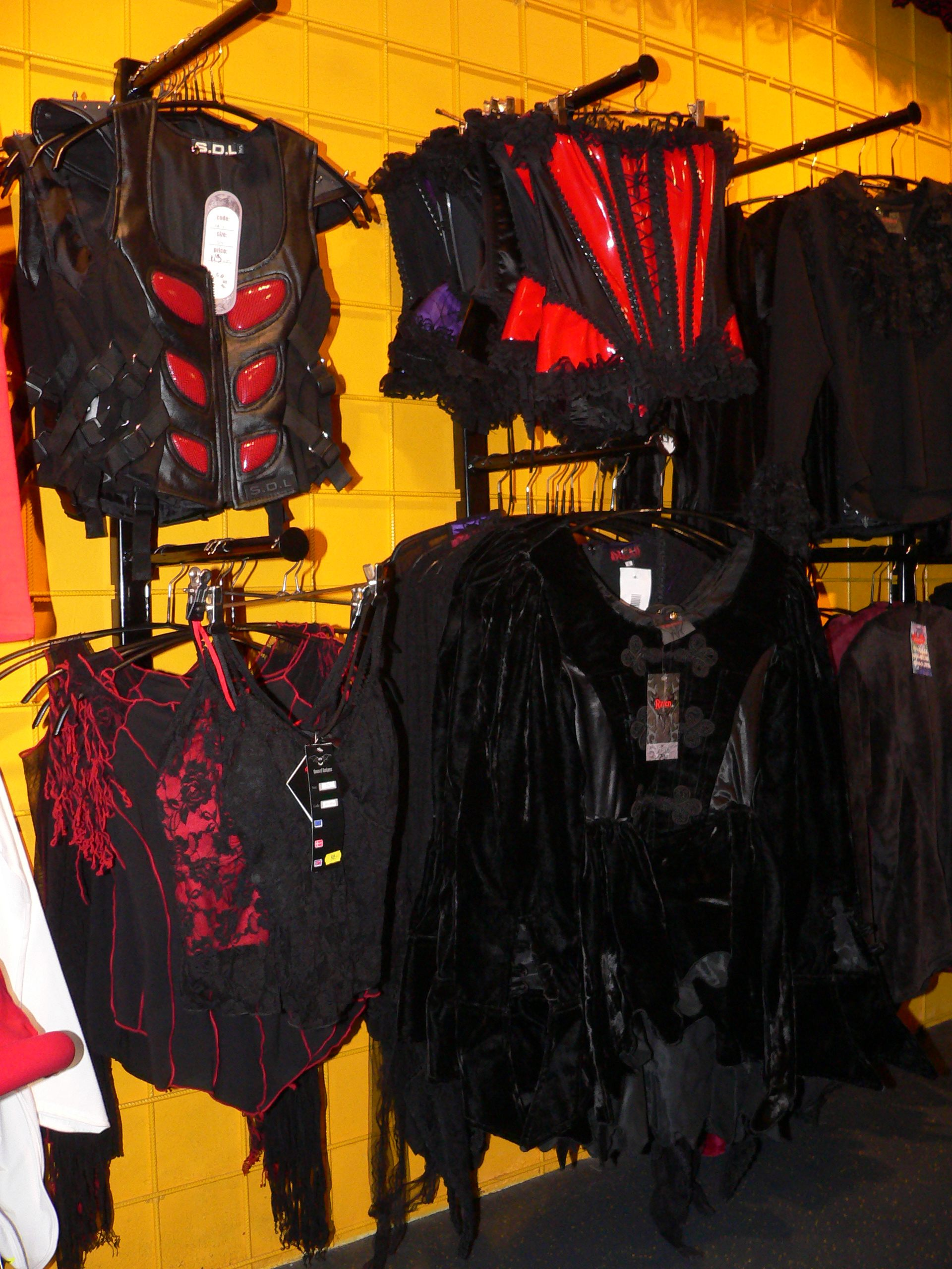 Elements of Gothic fashion None of these photographs would have been possible without the kind autorisation of the store Maniak at the Flon in Lausanne, to which we express our thanks.